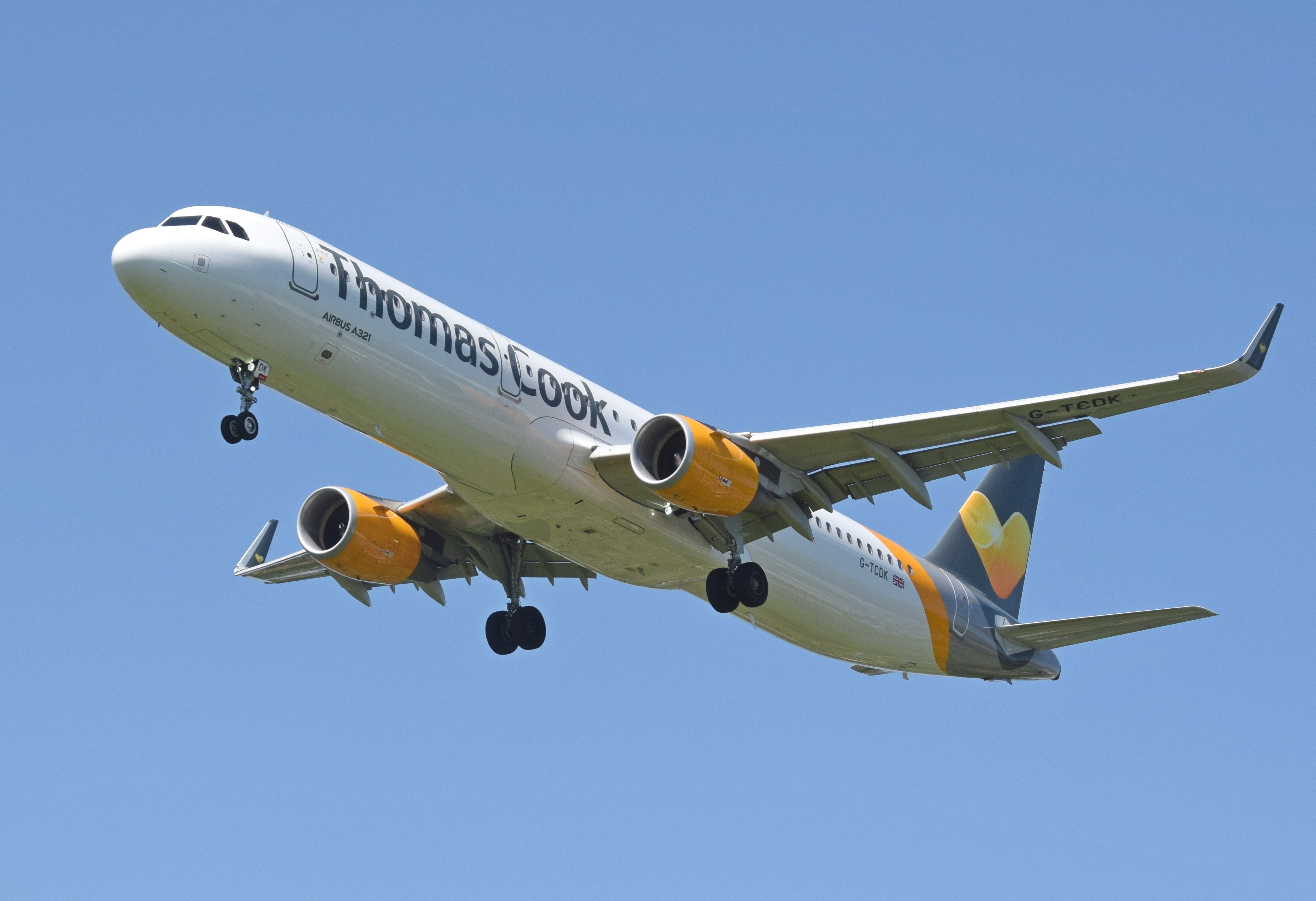 Airbus A321-200 (G-TCDK) of Thomas Cook Airlines arrives at Birmingham Airport, England. First flight 2015.